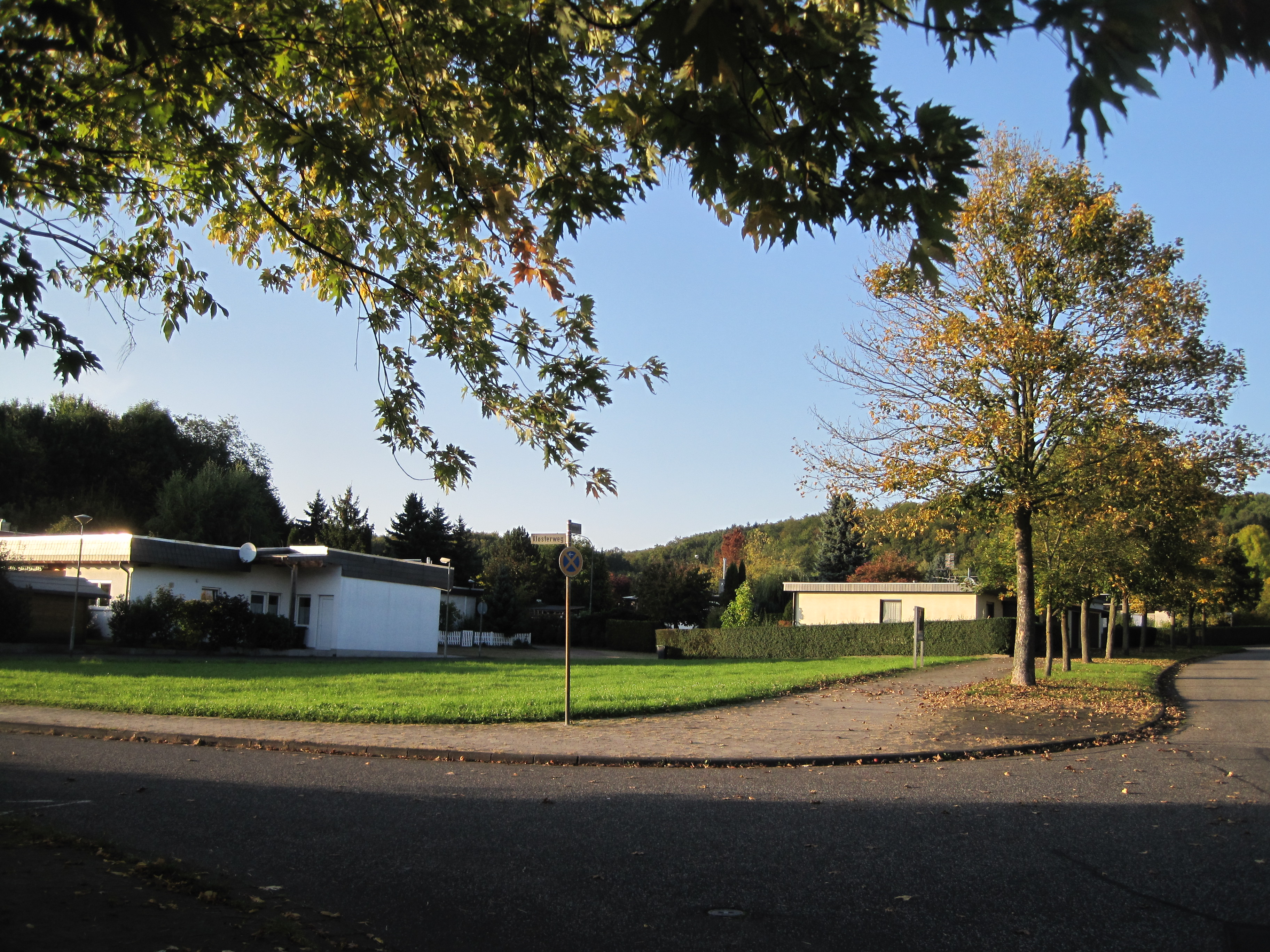 Petersweiher, Gießen, Germany check usage